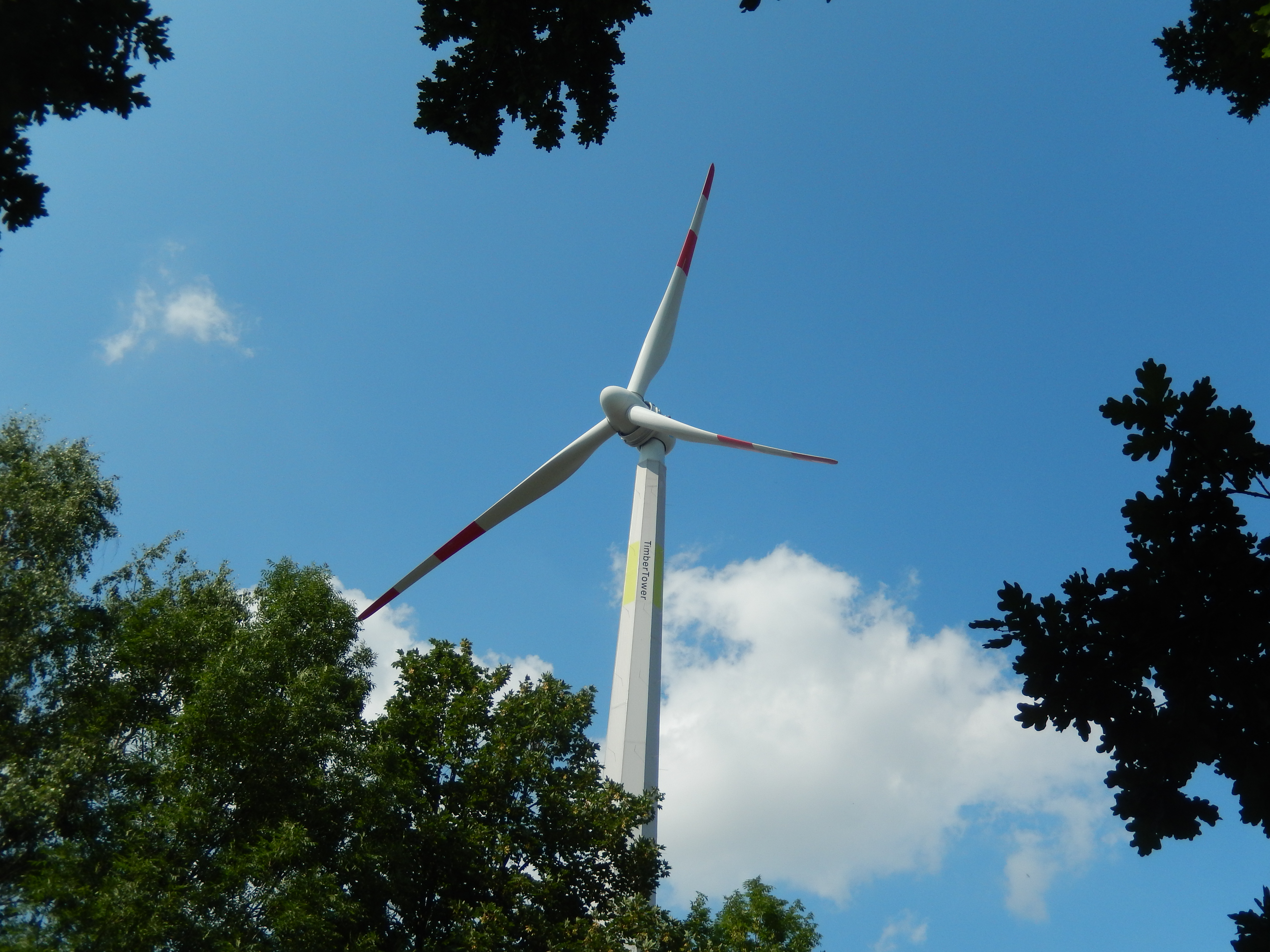 Wind turbine in Hannover-Marienwerder, Germany. The first modern wind turbine ever build on a wooden tower